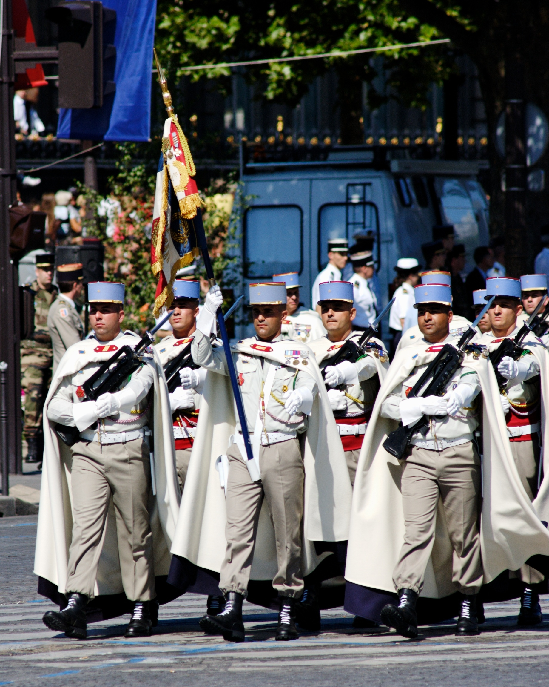 Standard guard of the 1st Regiment of Spahis, Bastille Day 2008 military parade on the Champs-Élysées, Paris.